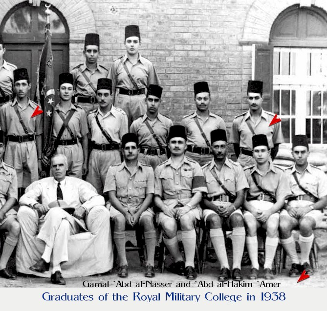 Nasser and Amer in Royal Military College (1938)